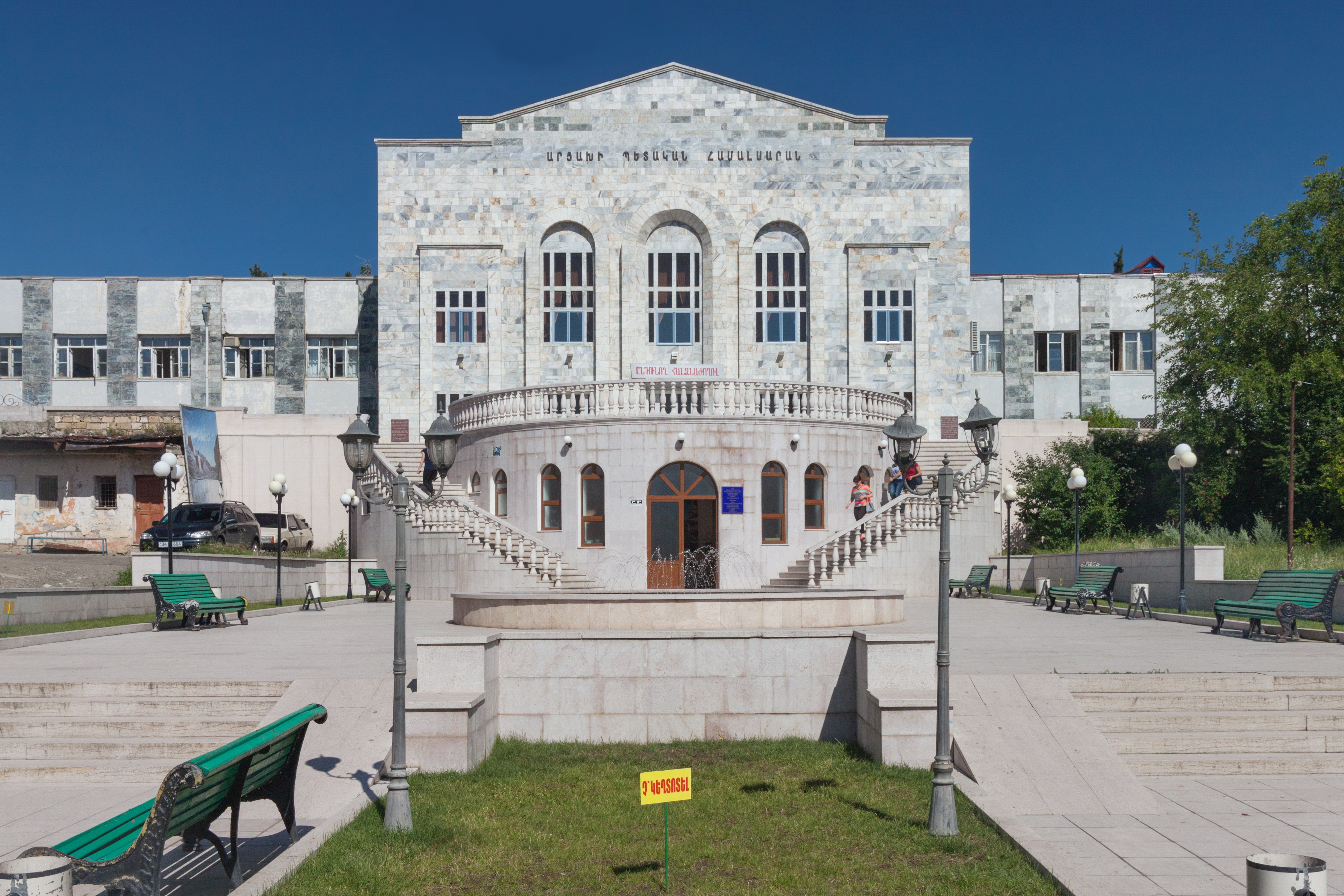 Artsakh University. Stepanakert/Xankəndi, Nagorno-Karabakh.